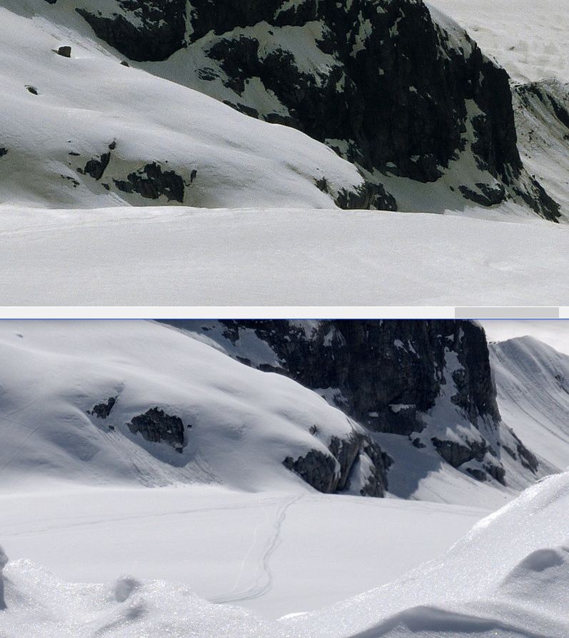 With those 2 pictures you can clearly see the difference in thickness